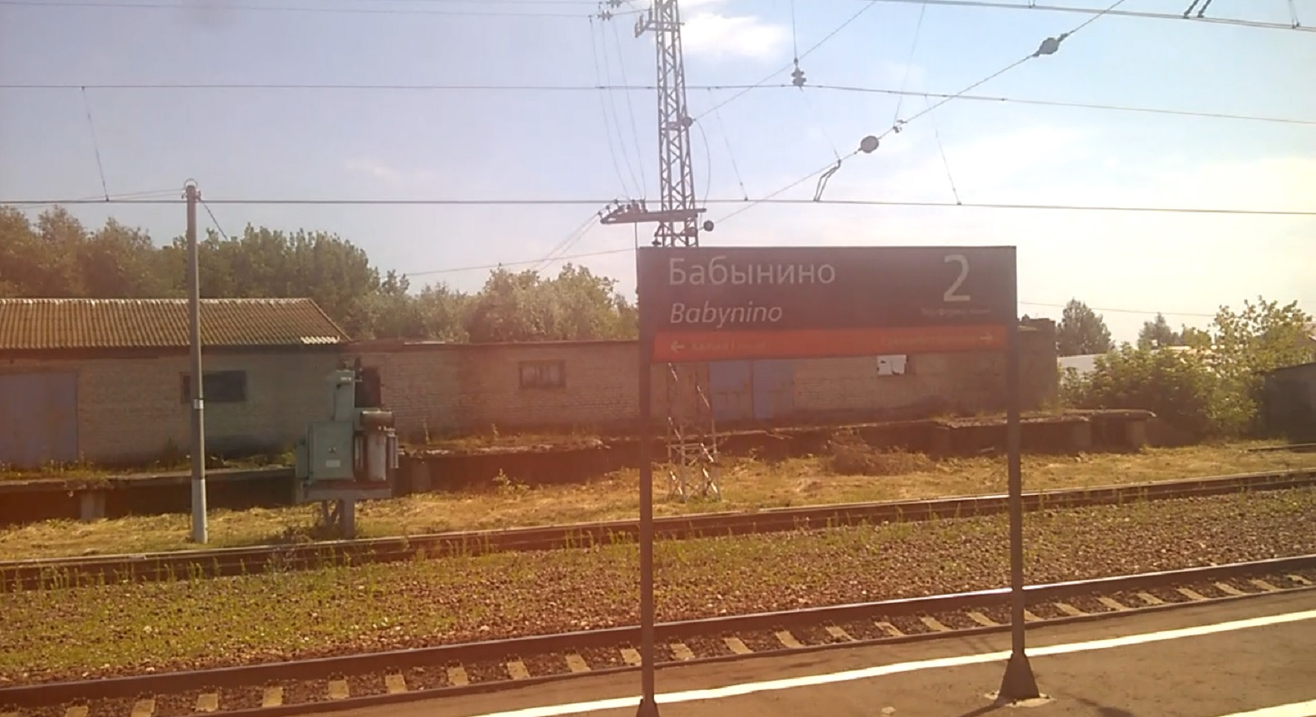 Babynino rails top filmed on July 28, 2020 from train window with mobile phone camera